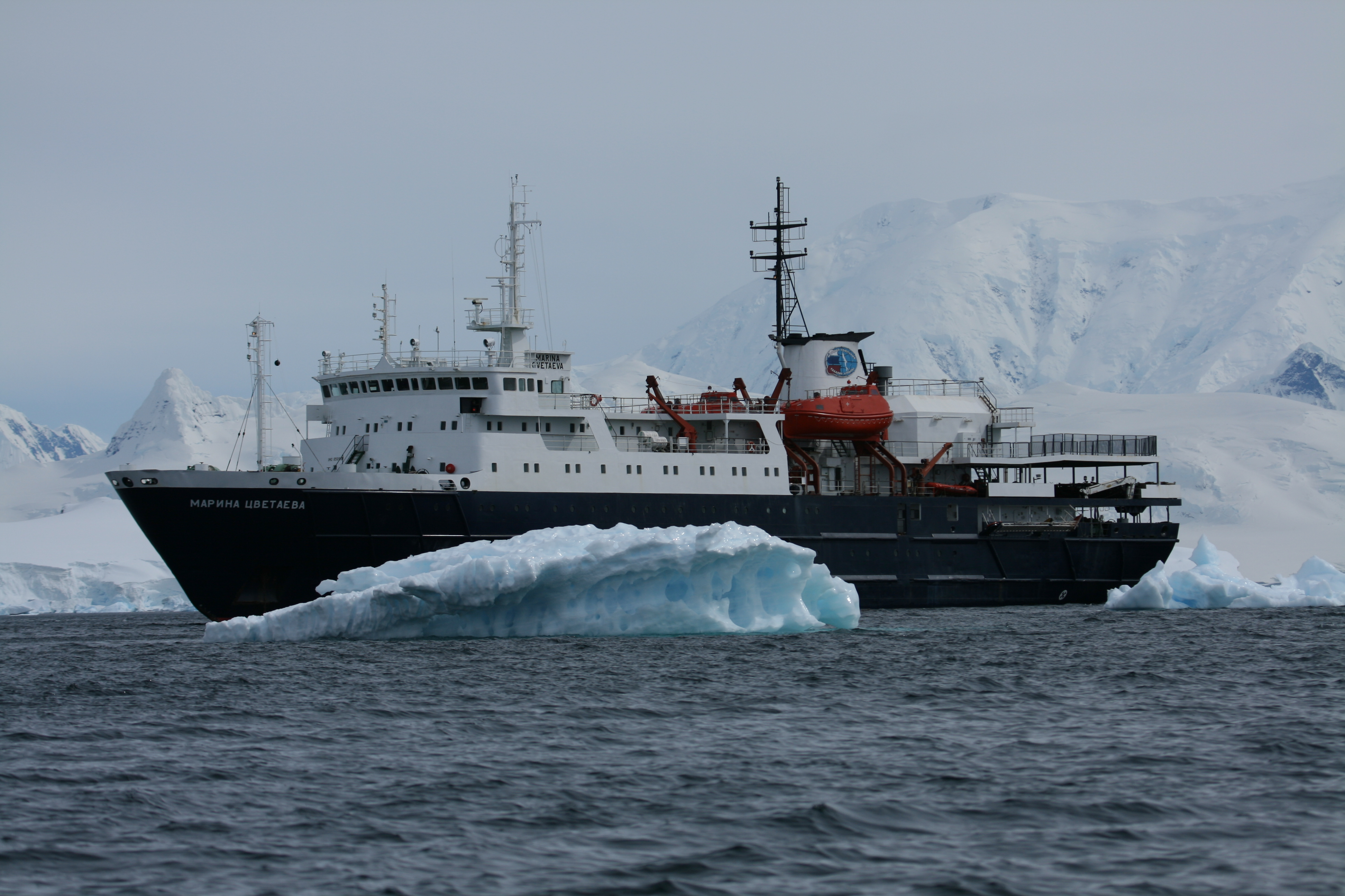 Photo of the Marina Svetaeva in Antarctica on December 14, 2010